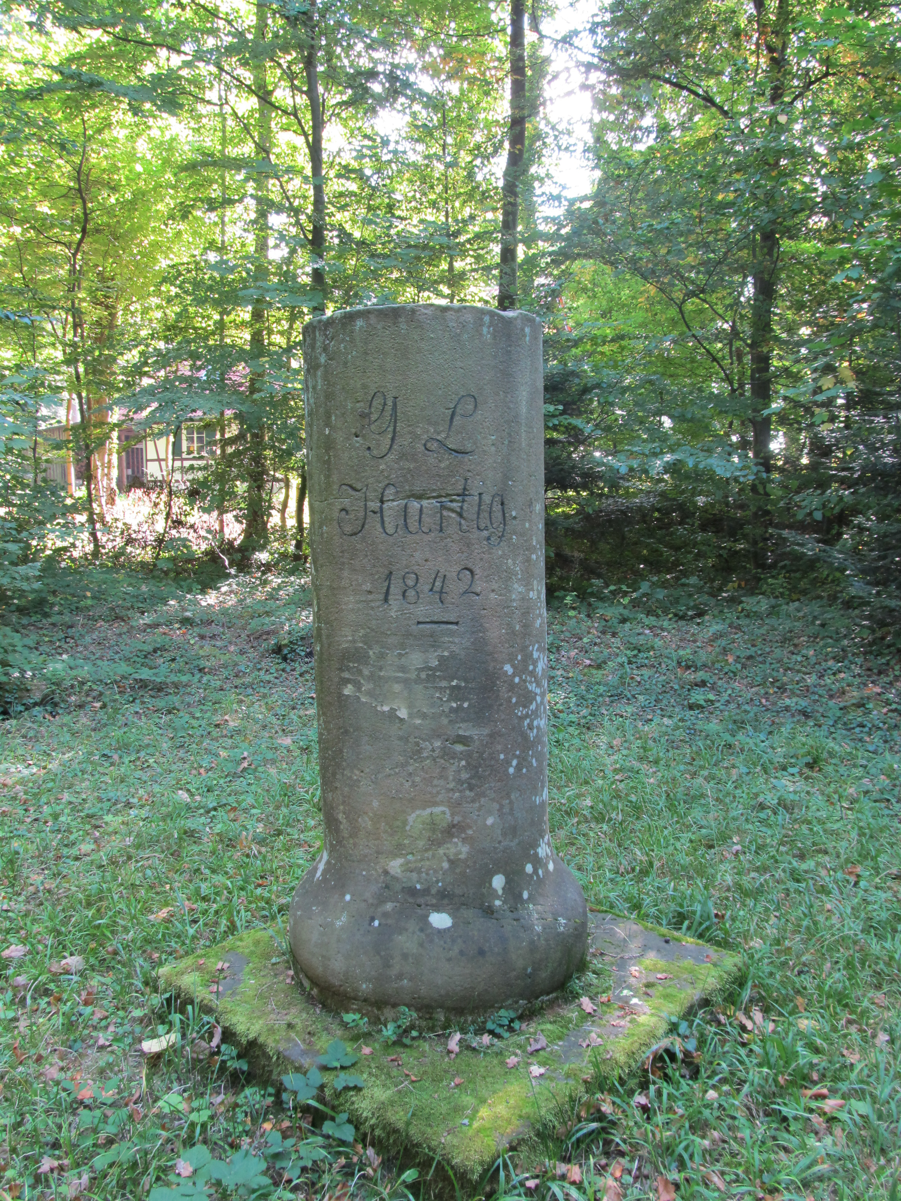 Monument in honor of Georg Ludwig Hartig at Goldboden near Manolzweiler (Winterbach) since 1842